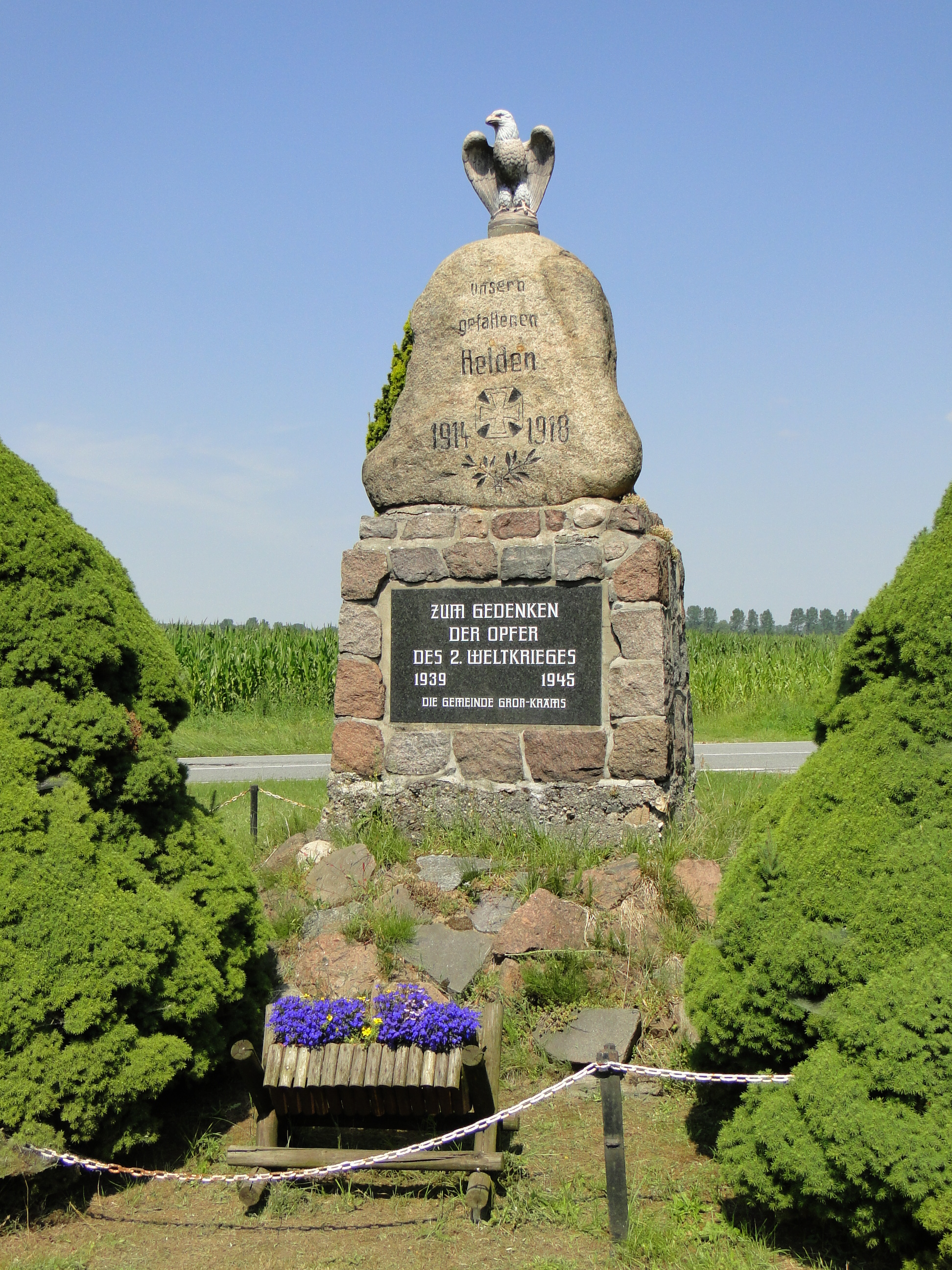 War memorial 1914-18 and 1939-45 in Groß Krams, district Ludwigslust-Parchim, Mecklenburg-Vorpommern, Germany